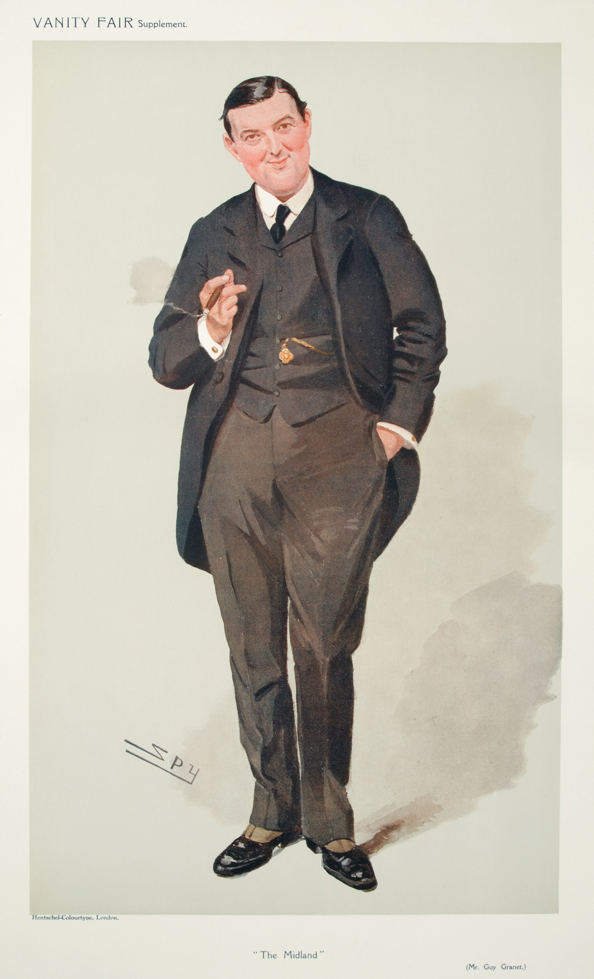 Caricature of William Guy Granet (1867-1943). Caption read "The Midland".